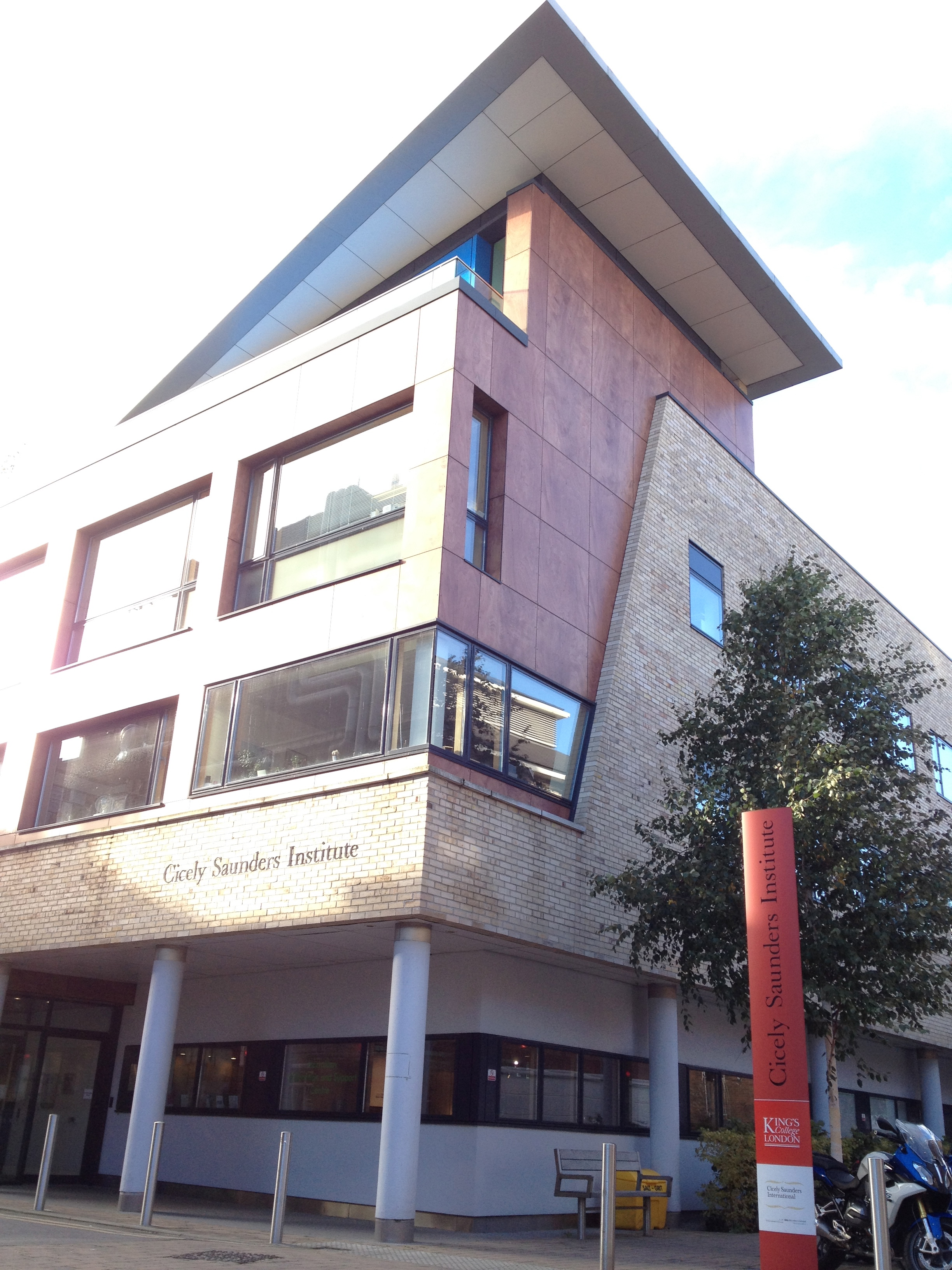 Cicely Saunders Institute4